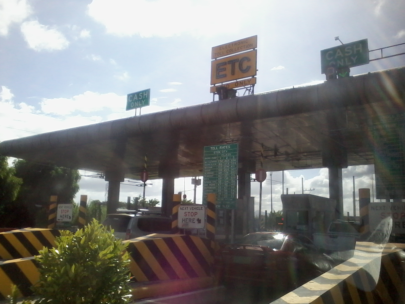 Eton City Toll Plaza's toll gate of the South Luzon Expressway. Picture taken while on the retreat to Mary Help of Christians retreat house of Batulao, Nasugbu, Batangas.